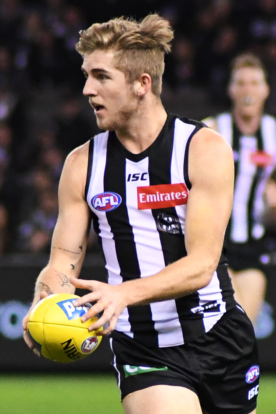 Sam Murray of Collingwood during the 2018 AFL round 21 match between Collingwood and Brisbane at Etihad Stadium on Saturday, 11 August 2018 in Melbourne, Victoria.